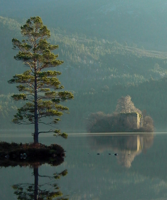 The Most Photographed Tree in Britain This pine tree on the shore of Loch an Eilein, in Rothiemurchus forest, is reputedly the most photographed tree in Britain.